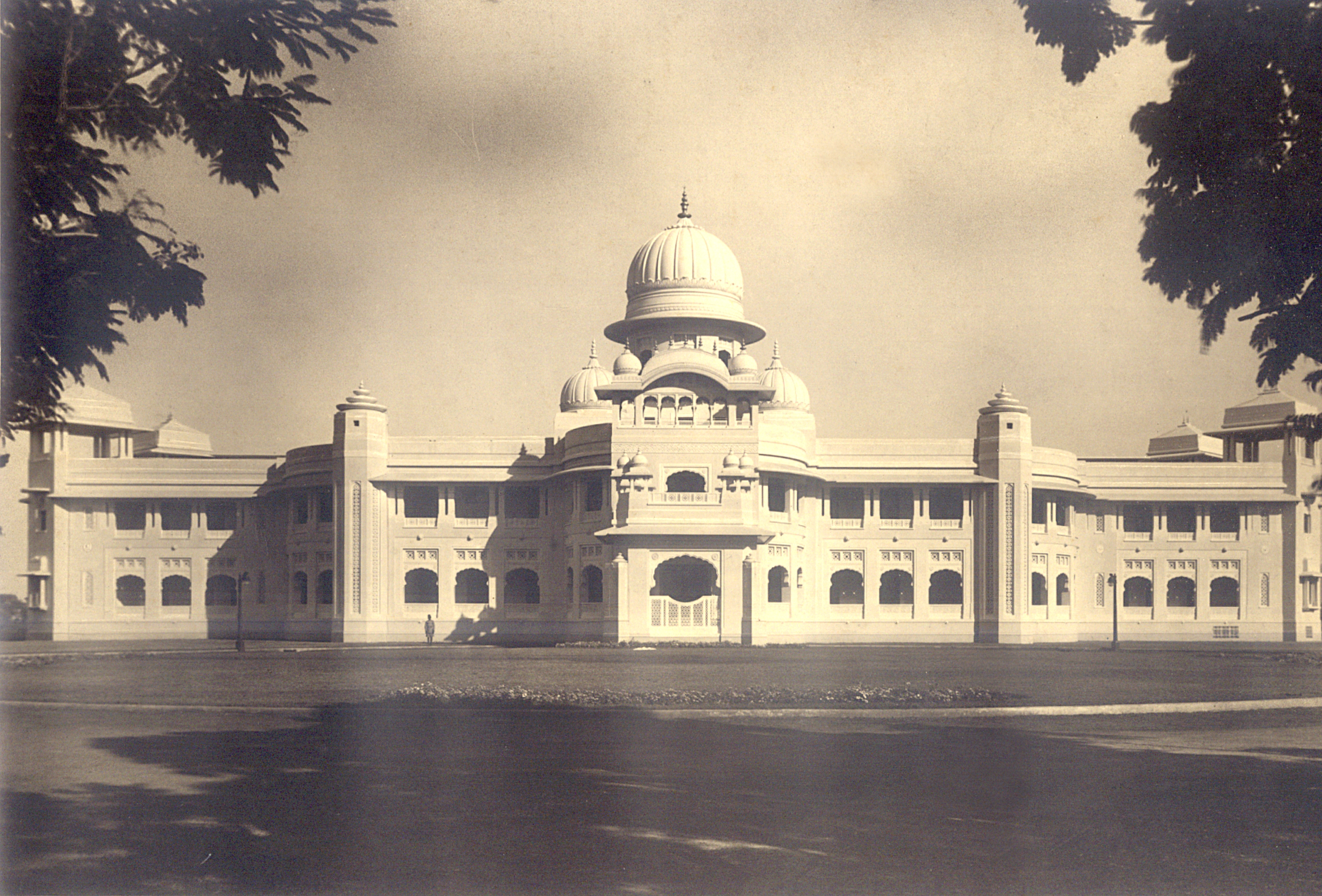 The famous Indrajit-Padmini Mahal (Vadia Palace) of Rajpipla